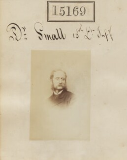 John Small, British Army Staff Surgeon, 15th Light Infantry, 1823-1879, Portrait from the National Portrait Gallery, London, England, Albumen Print, 1864 by Camille Silvy, NPG Ax63410